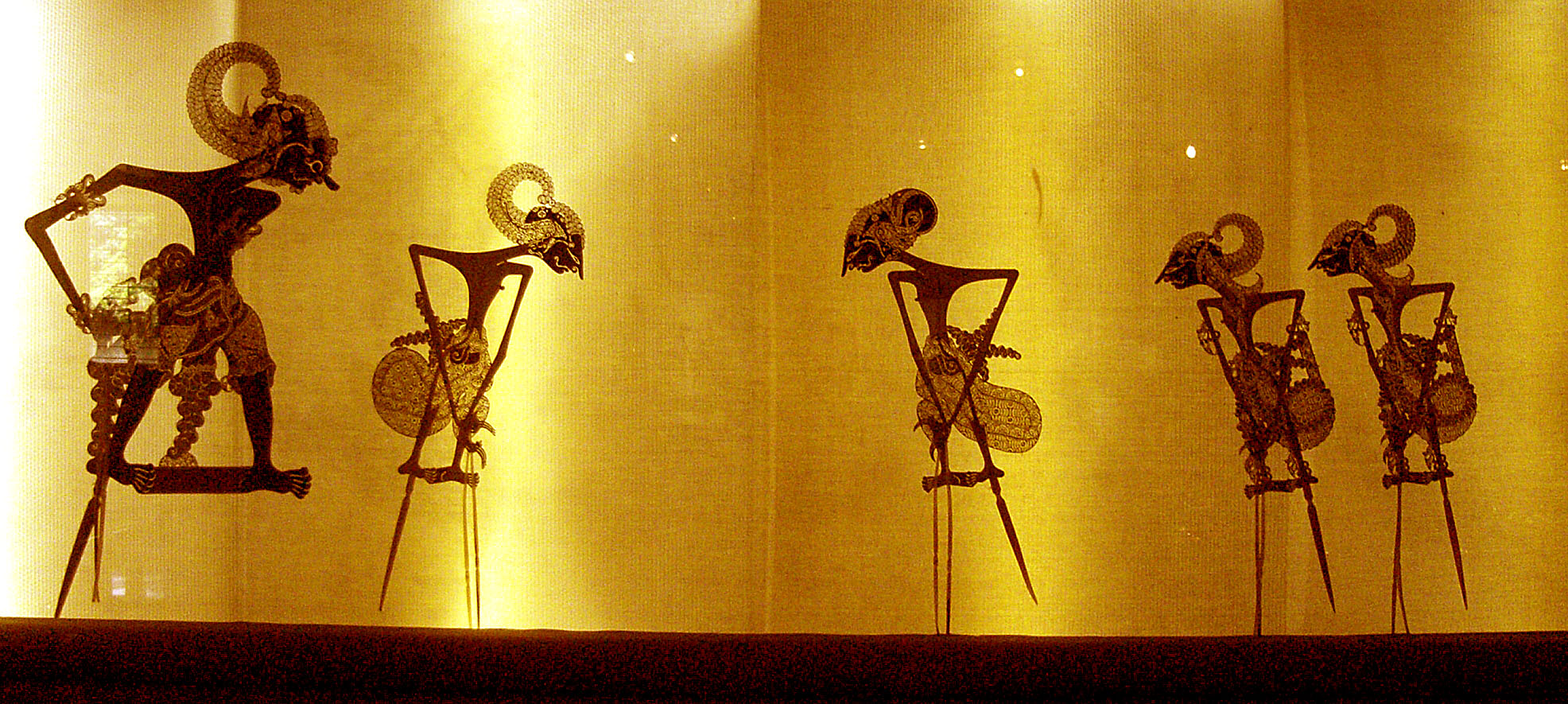 The five Pandava brothers of the Mahabharata in the Javanese wayang kulit, Indonesia